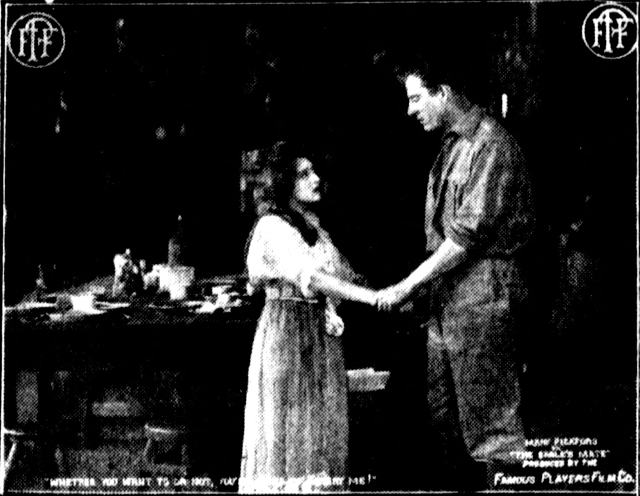 The Eagle's Mate is a 1914 silent film produced by the Famous Players film company and released through Paramount Pictures. This is a scene from the film as published in a newspaper.